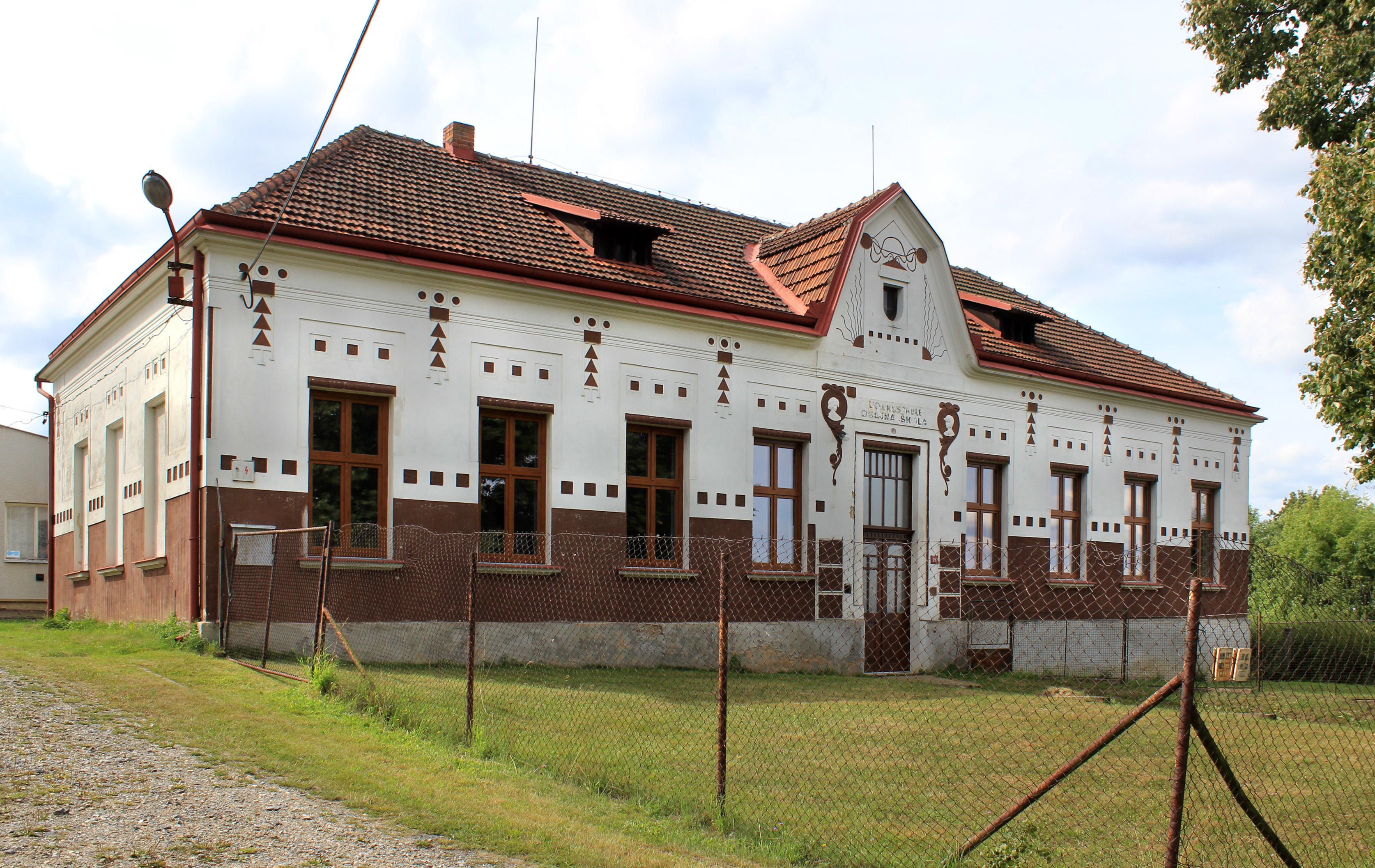 Old school in Štichov, Czech Republic.